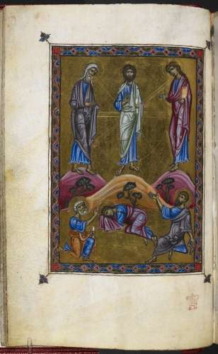 Melisende Psalter f4v, transfiguration